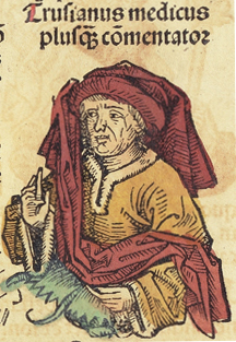 Woodcut from the Nuremberg Chronicle (Latin edition in Sao Paulo)